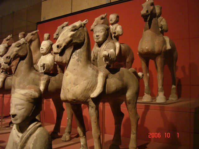 Chinese pottery cavalry soldiers from the Western Han Dynasty.